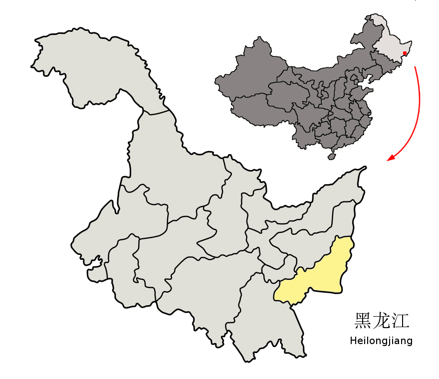 Location of Jixi Prefecture (yellow) within Heilongjiang Province of China Map drawn in november 2007 using various sources, mainly : Heilongjiang Province administrative regions GIS data: 1:1M, County level, 1990 Heilongjiang Counties map from